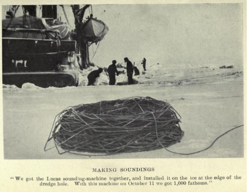 Photograph of men making depth soundings through ice; coil of sounding line in foreground, ship Karluk in background.